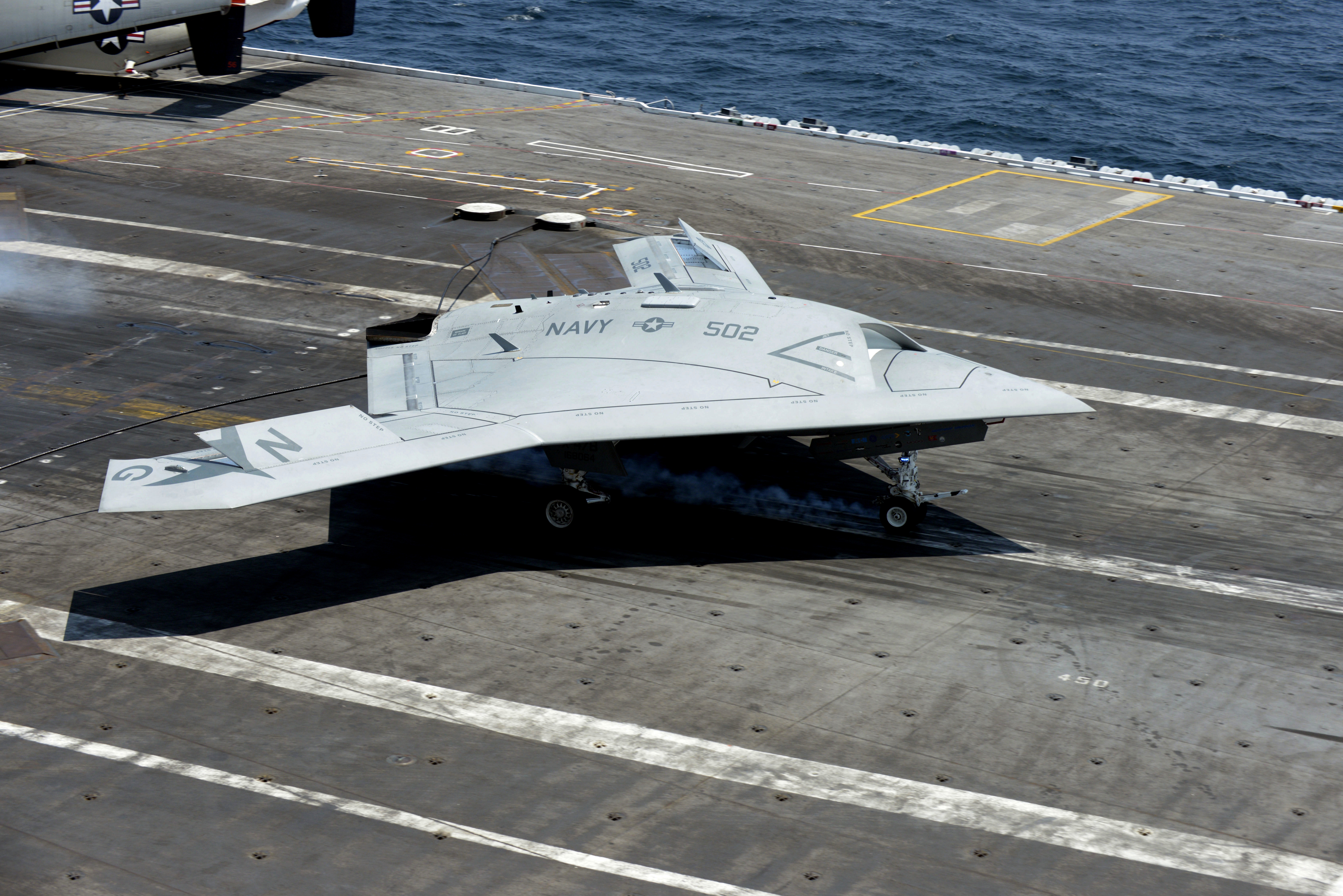 A U.S. Navy X-47B Unmanned Combat Air System makes an arrested landing aboard the aircraft carrier USS George H.W. Bush (CVN 77) as the ship conducts flight operations in the Atlantic Ocean off the coast of Virginia on July 10, 2013. The successful landing marks the first time a tail-less, unmanned autonomous aircraft landed on a modern aircraft carrier.